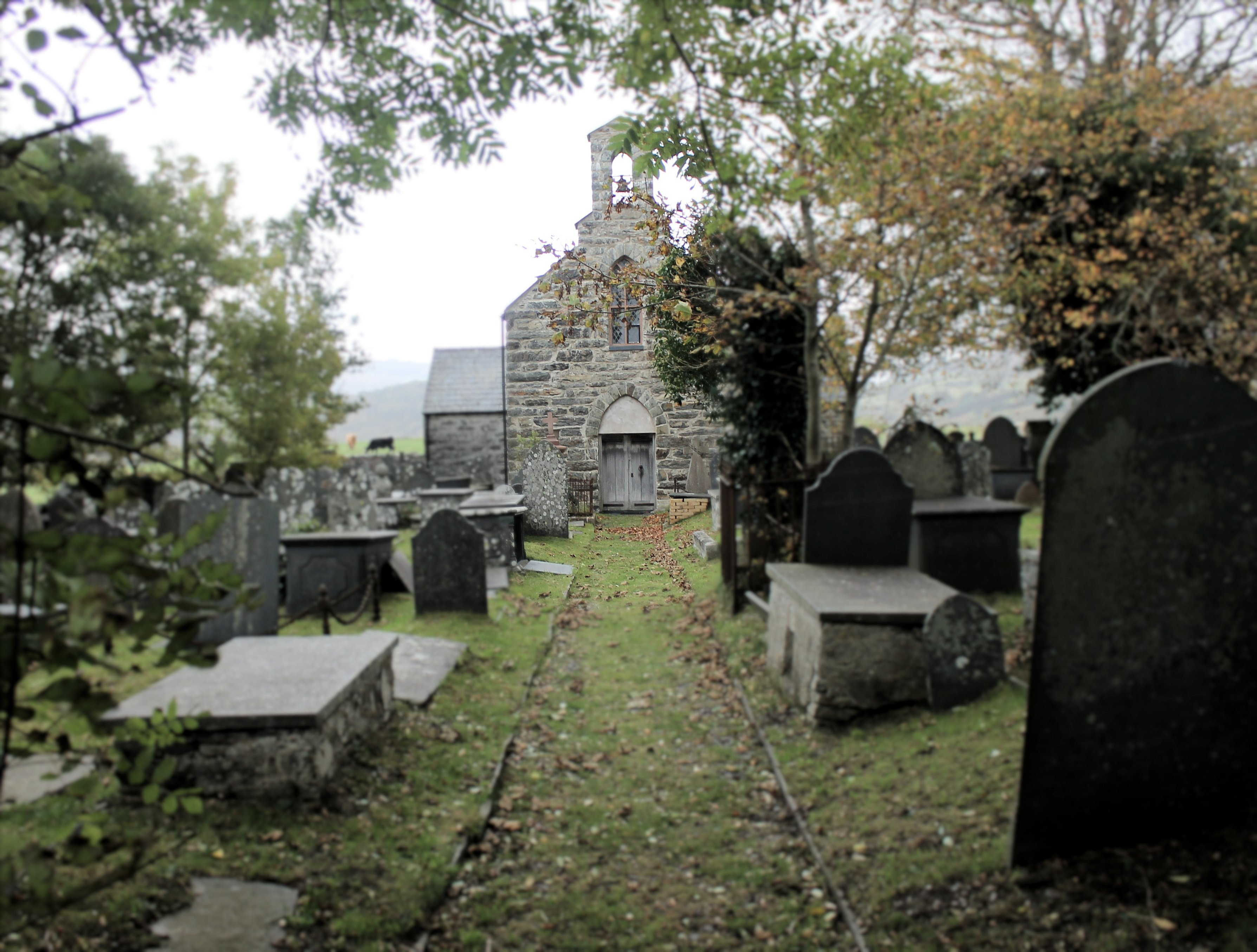 Eglwys Sant Cynhaiarn / Cynhaearn, near Cricieth, North Wales.